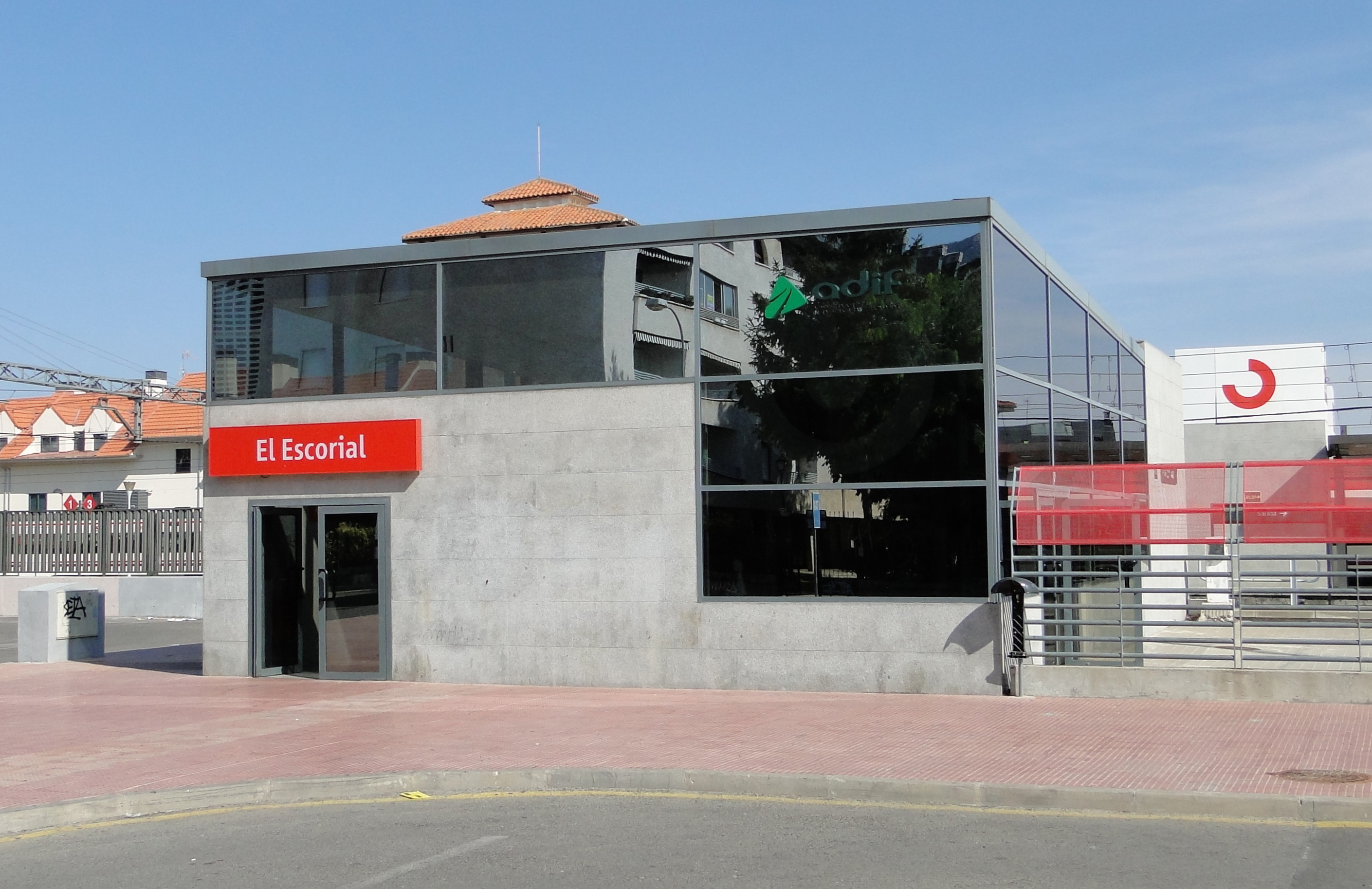 Train station of El Escorial, Spain